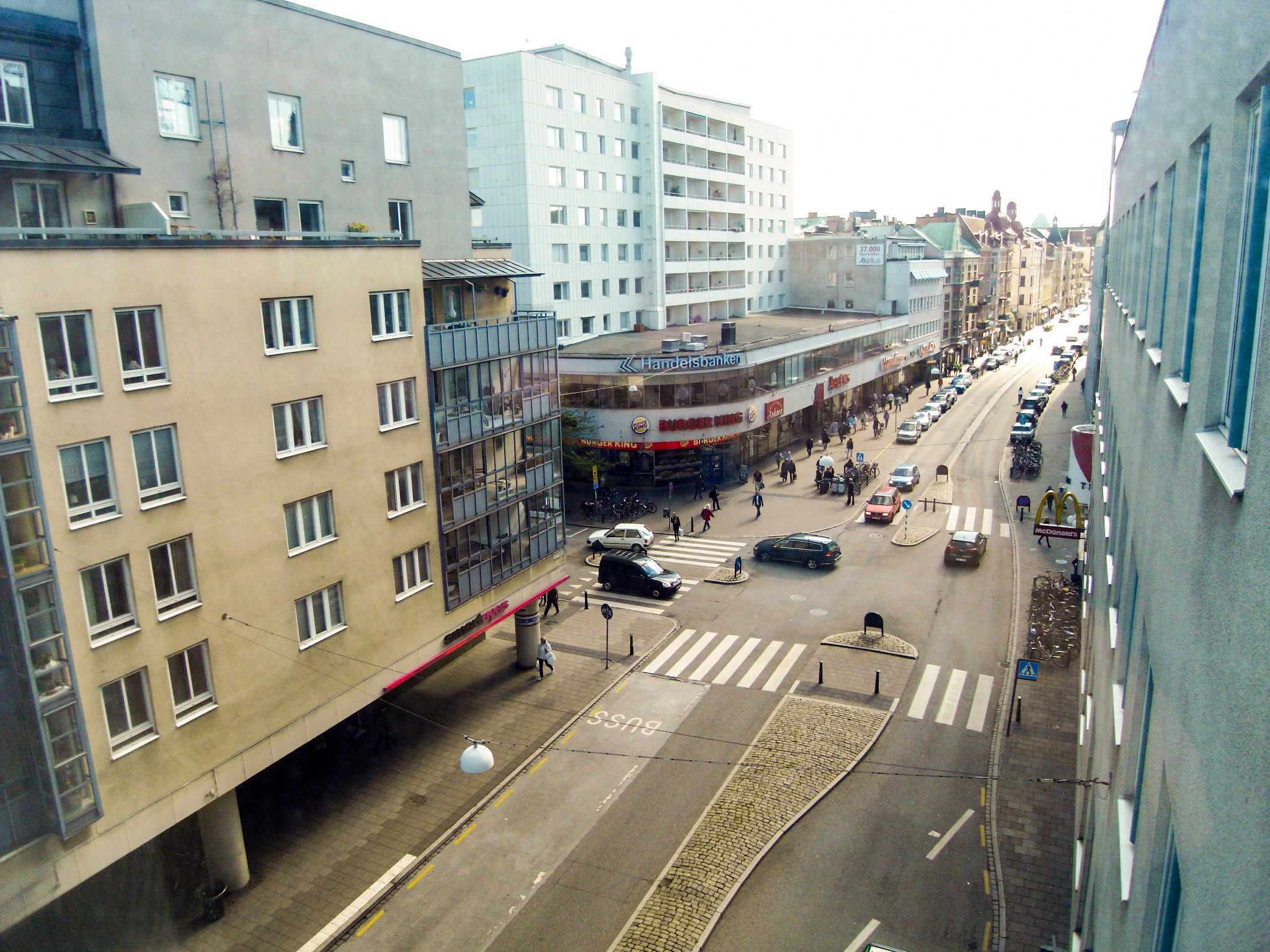 This is a view over the street Södra Förstadsgatan in the city of Malmo, taken far up from a building, and behind a window, because I felt that I wasn't allowed to open it. The picture is photographed 19 September, 2013.